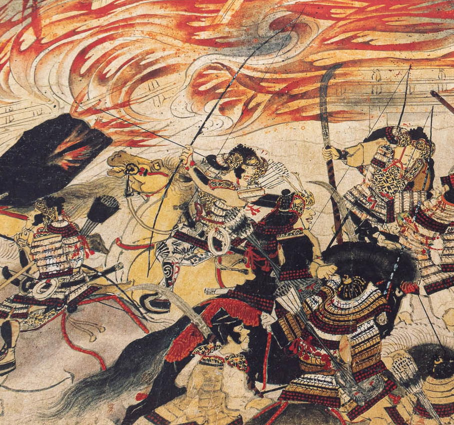 Kamakura samurai on horses. A samurai with a bow and arrow and another with a naginata.